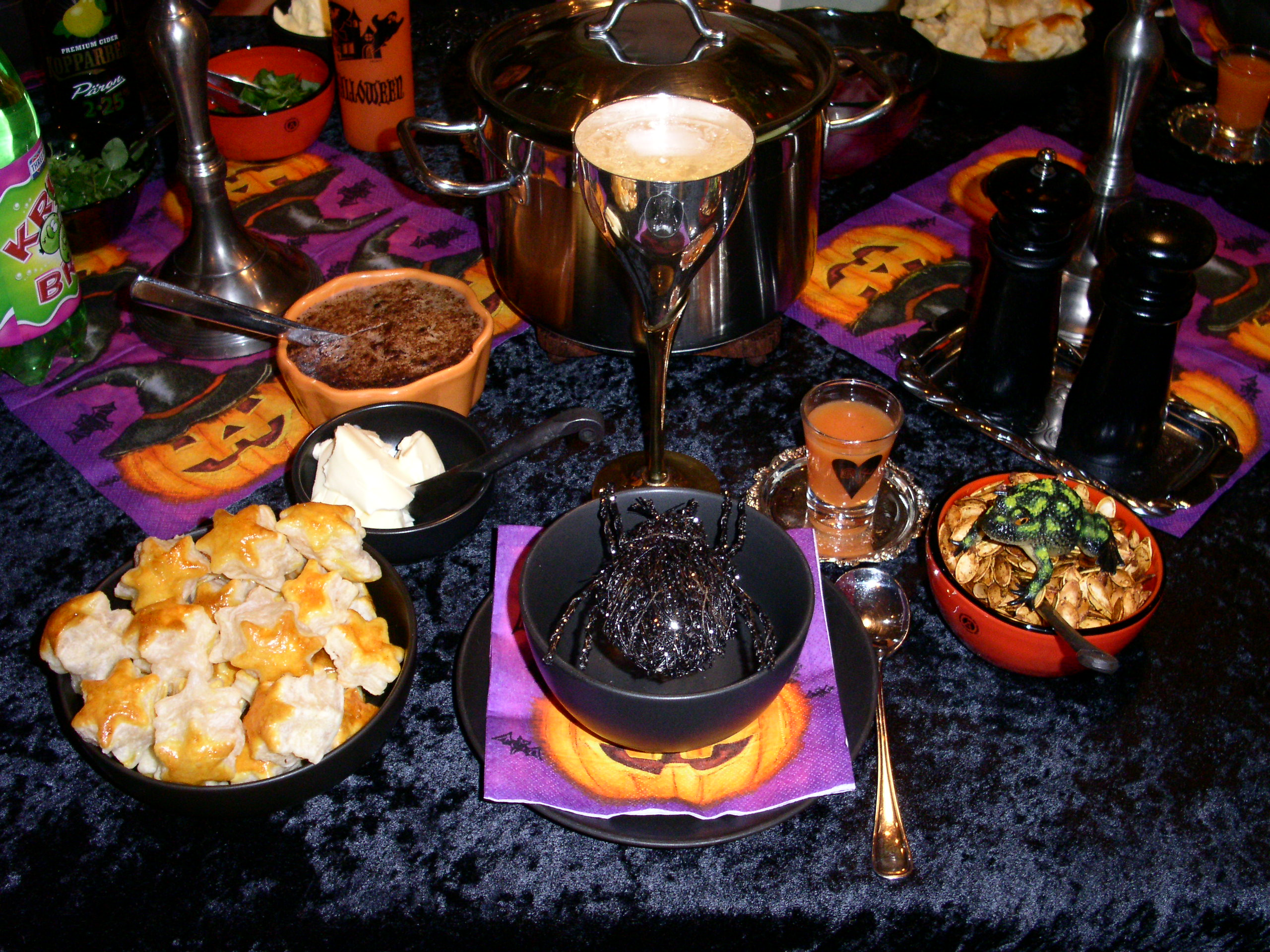 Halloween supper